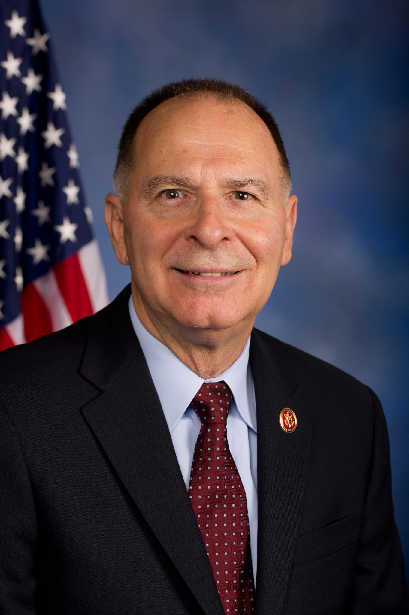 Congressman William Enyart